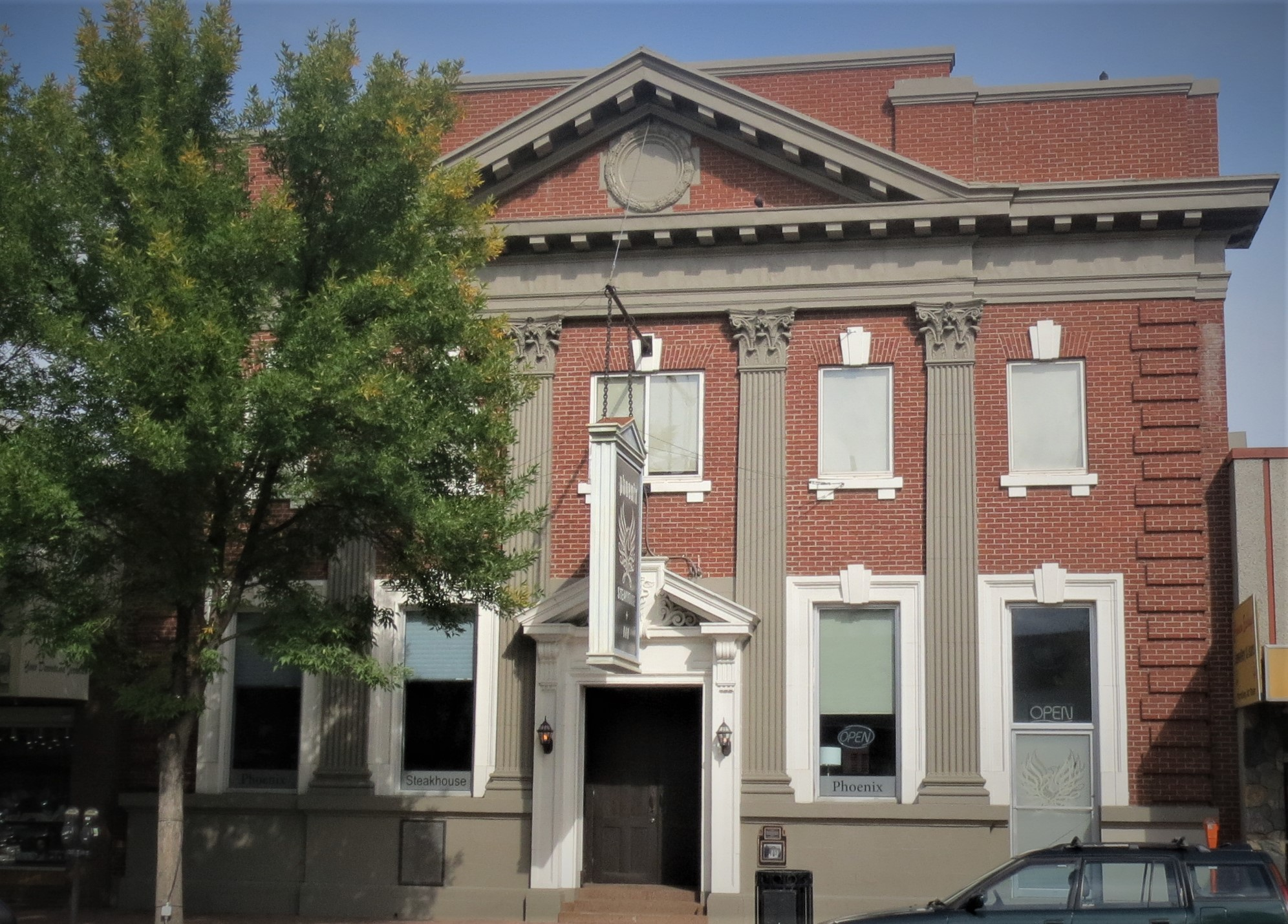 Bank of Commerce Historic Building in Vernon, British Columbia